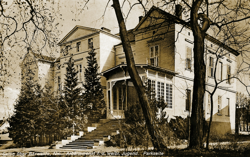 Palace in Zielin (Sellin) by Mieszkowice (Bärwalde) before Second World War